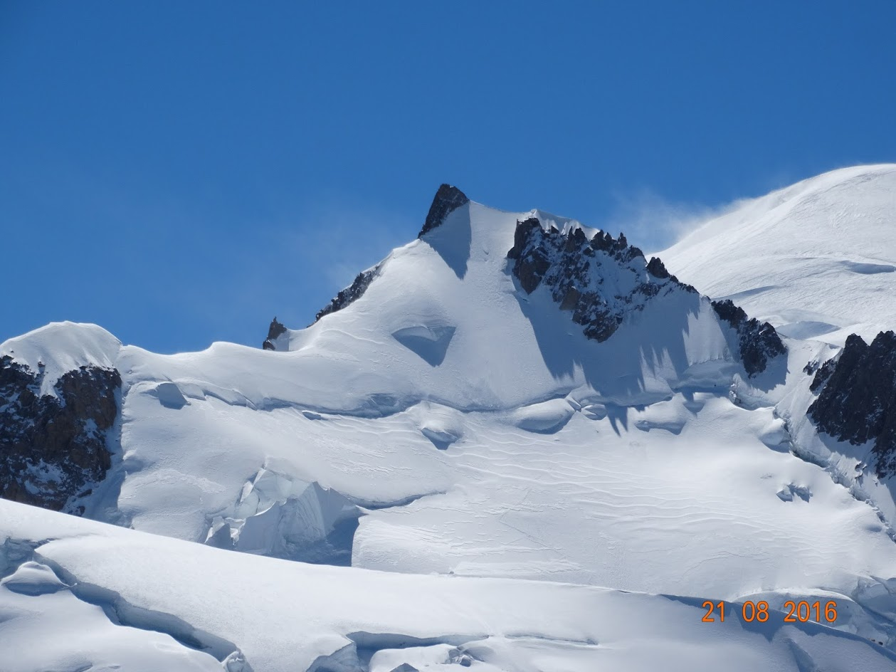 Mont Maudit (view from Aiguil du Midi)